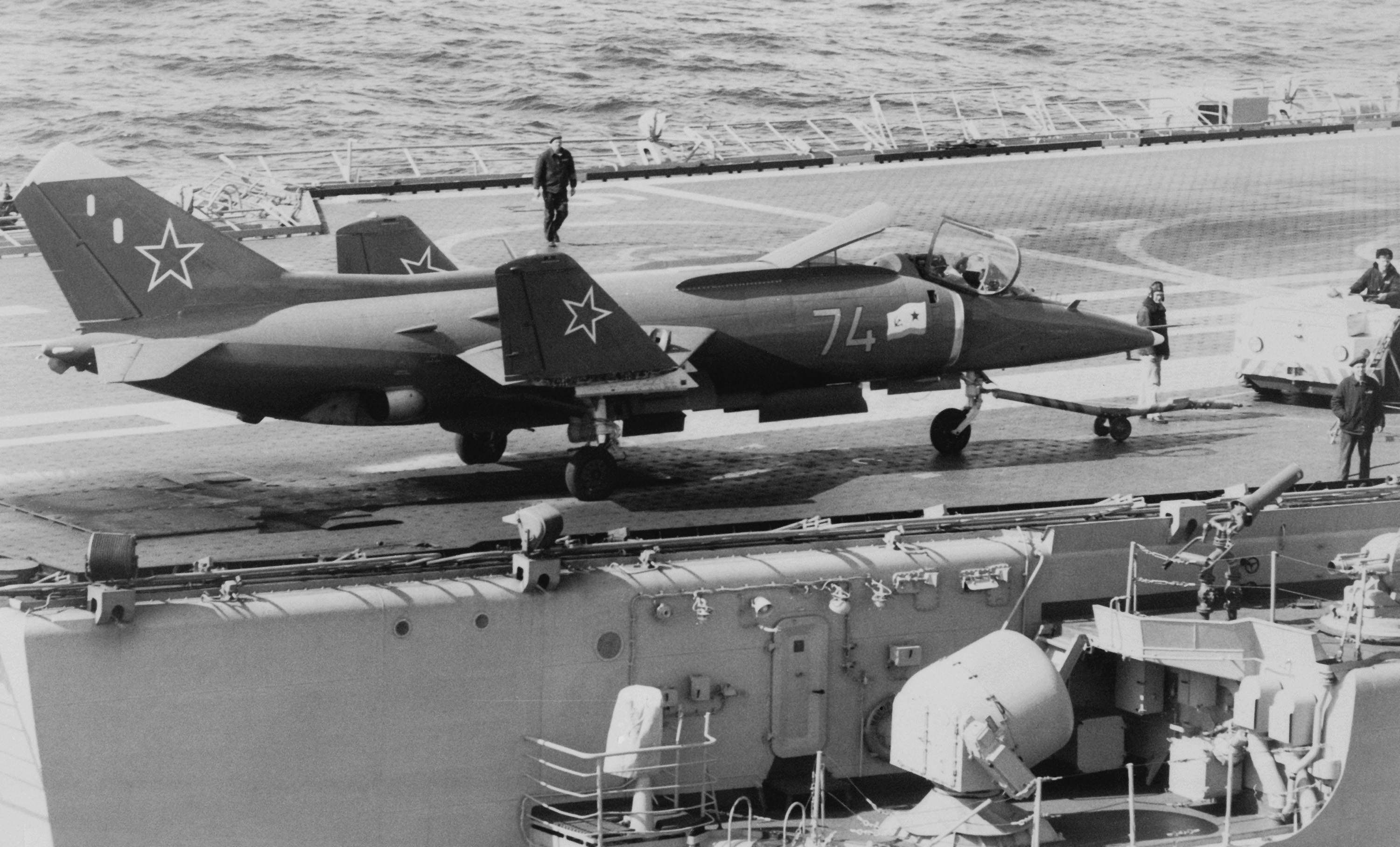 Right side view of a Soviet Yak-38 Forger aircraft on the deck of a Soviet aircraft carrier.